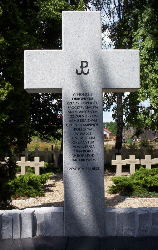 Monument on a cemetery of Home Army soldiers from Group Kampinos in Budy Zosiny. While group were trying to reach Świętokrzyskie Mountains, it got surrounded 29 September 1944, on a terrain of village Budy Zosiny.